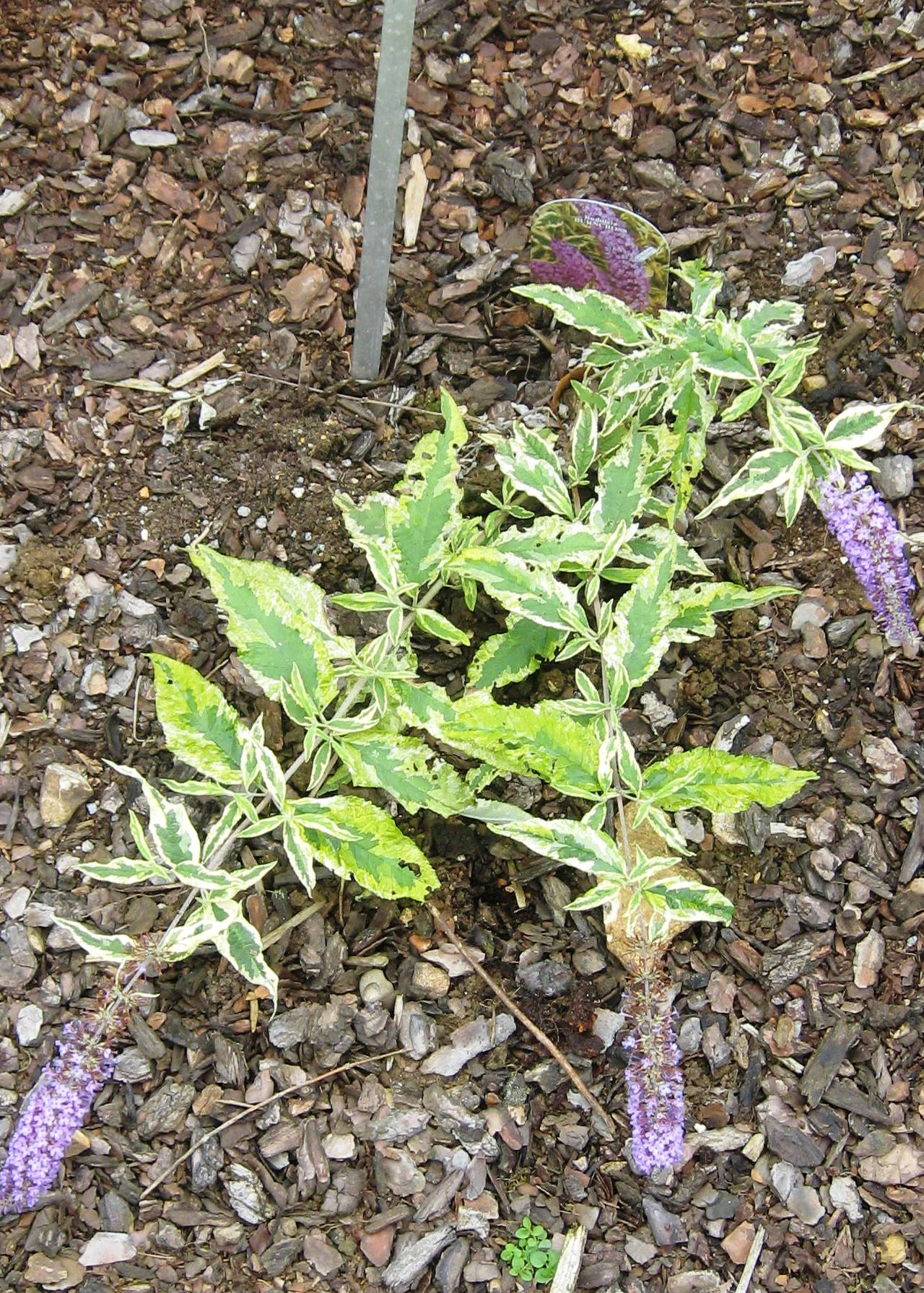 Photo of Buddleja cultivar taken at Longstock Park Nursery, UK, NCCPG national collection holder